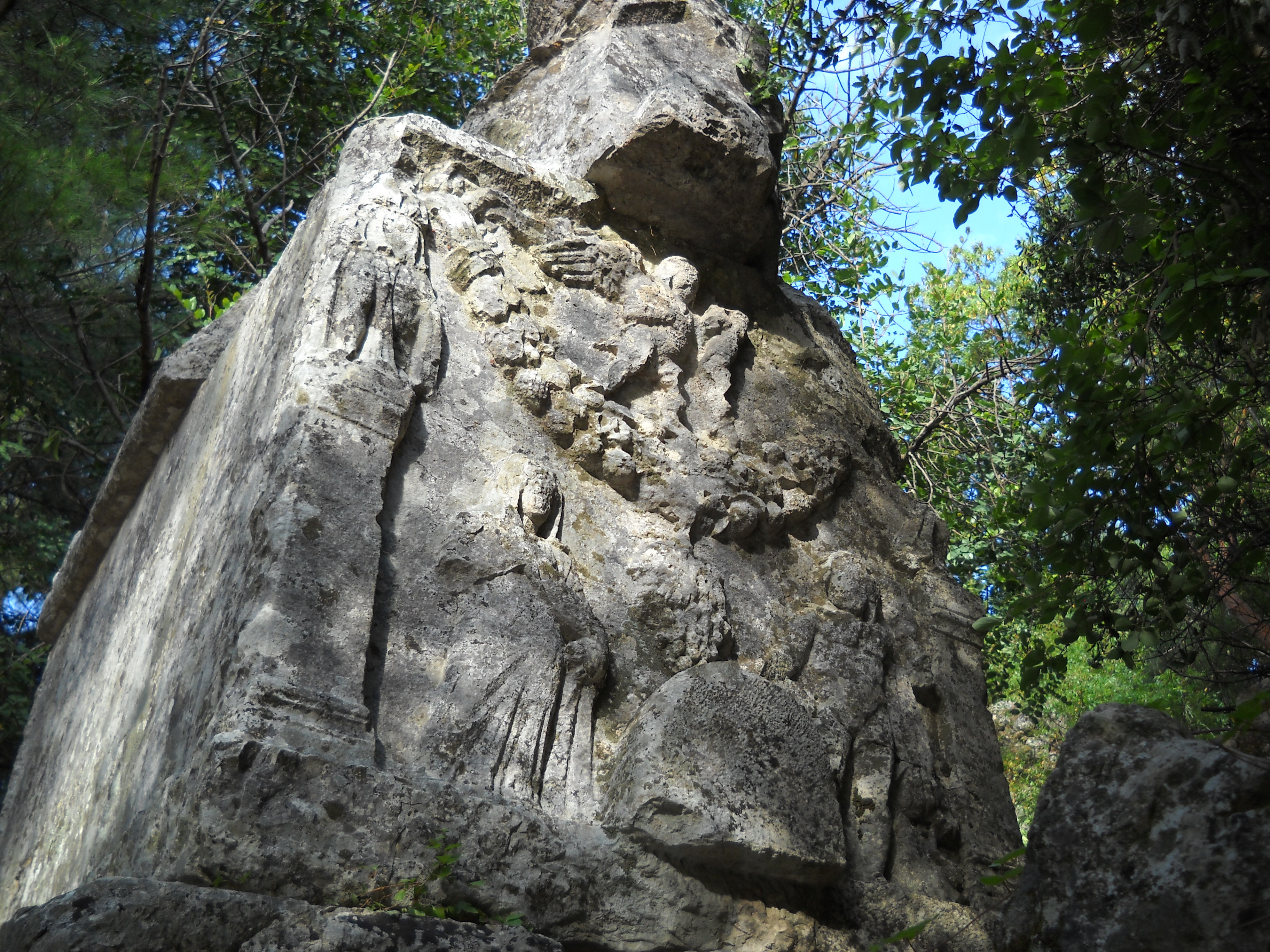 The image shows the sarcophagus of Alkestis in the antique city of Olympos in Lycia, Turkey